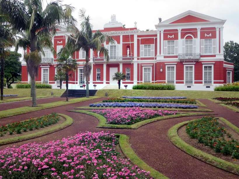 The Palacio de Santana (1846) in Ponta Delgada on Sao Miguel Island, is the official residence of the President of the Autonomous Region of the Azores.